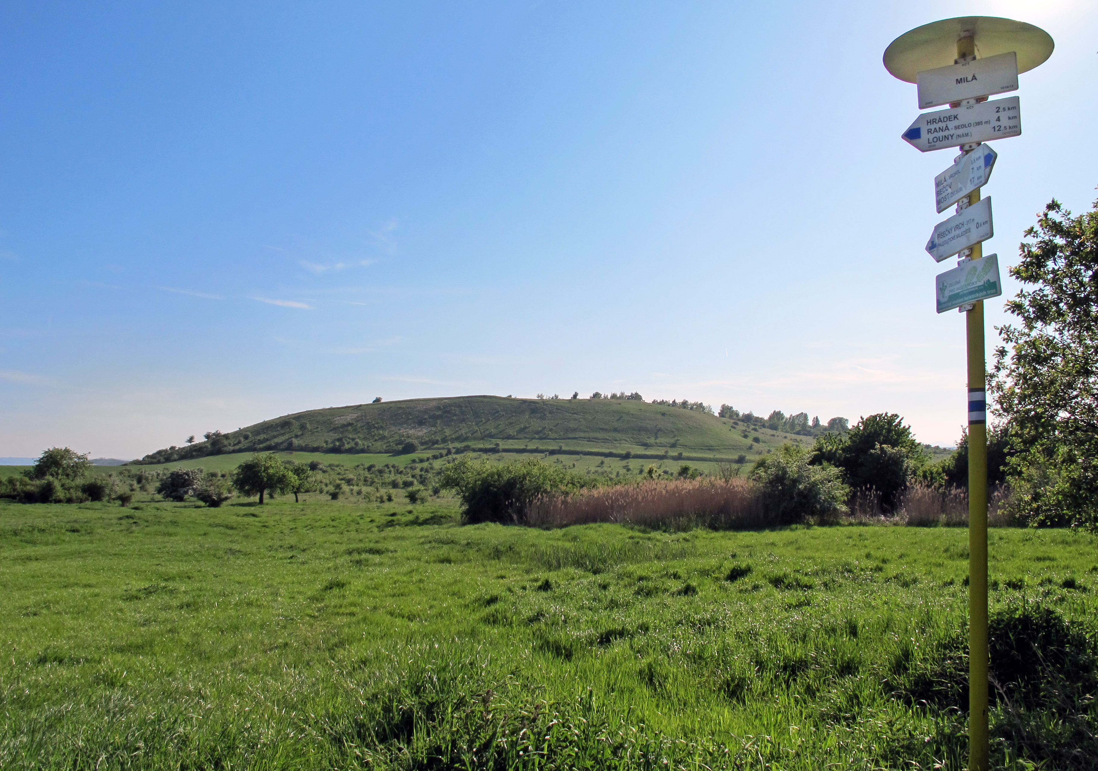 Písečný vrch, archelogical site in Most district, Czech Republic